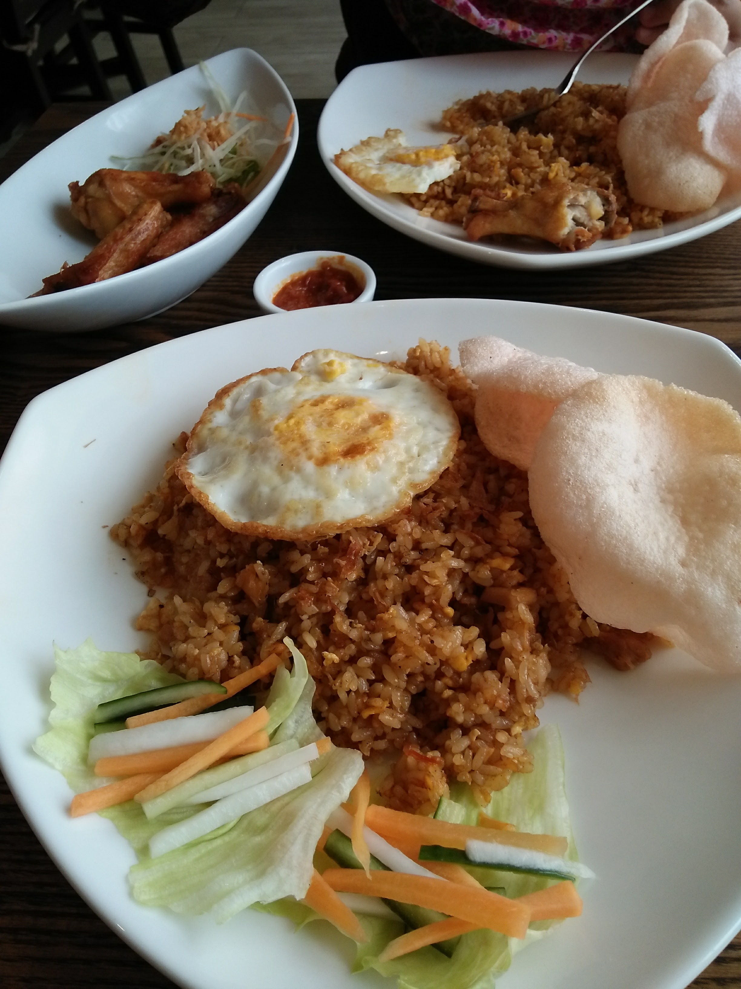 nasi goreng indonesia, cafe bintang, osaka, japan